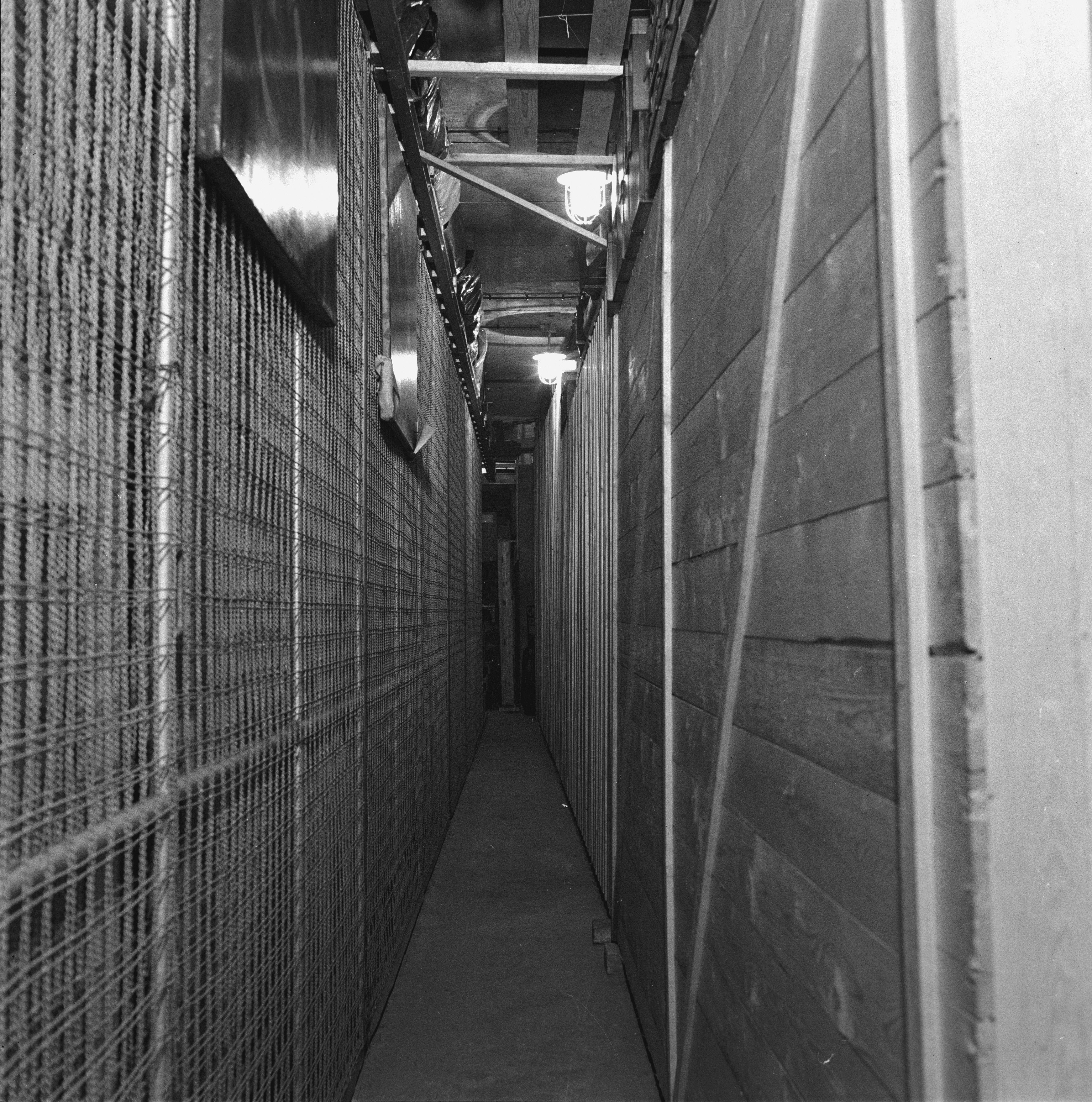 Beschrijving: Reportage St. Pietersberg, waar in een grot de kunstschatten van het Rijksmuseum tijdens de oorlog waren opgeborgen. Noordelijk Gangenstelsel van de Sint Pietersberg. Kilometervak RD 176-315. Datum: 1945 Plaats:Maastricht Vervaardiger: Fotograaf onbekend Formaat: negatief 6x6 Bestanddeelnummer: 2.24.01.15_900-2431 Fotocollectie: Anefo Auteursrechten: Nationaal Archief Voor meer informatie over het Nationaal Archief: Voor meer foto's uit deze en andere collecties, bezoek onze Beeldbank: U kunt ons helpen onze kennis van de fotocollecties te verrijken door tags en commentaren toe te voegen. Herkent u mensen of locaties of heeft u een bijzonder verhaal te vertellen bij één van de foto’s, laat dan een reactie achter (als u ingelogd bent bij Flickr) of stuur een mailtje naar: !